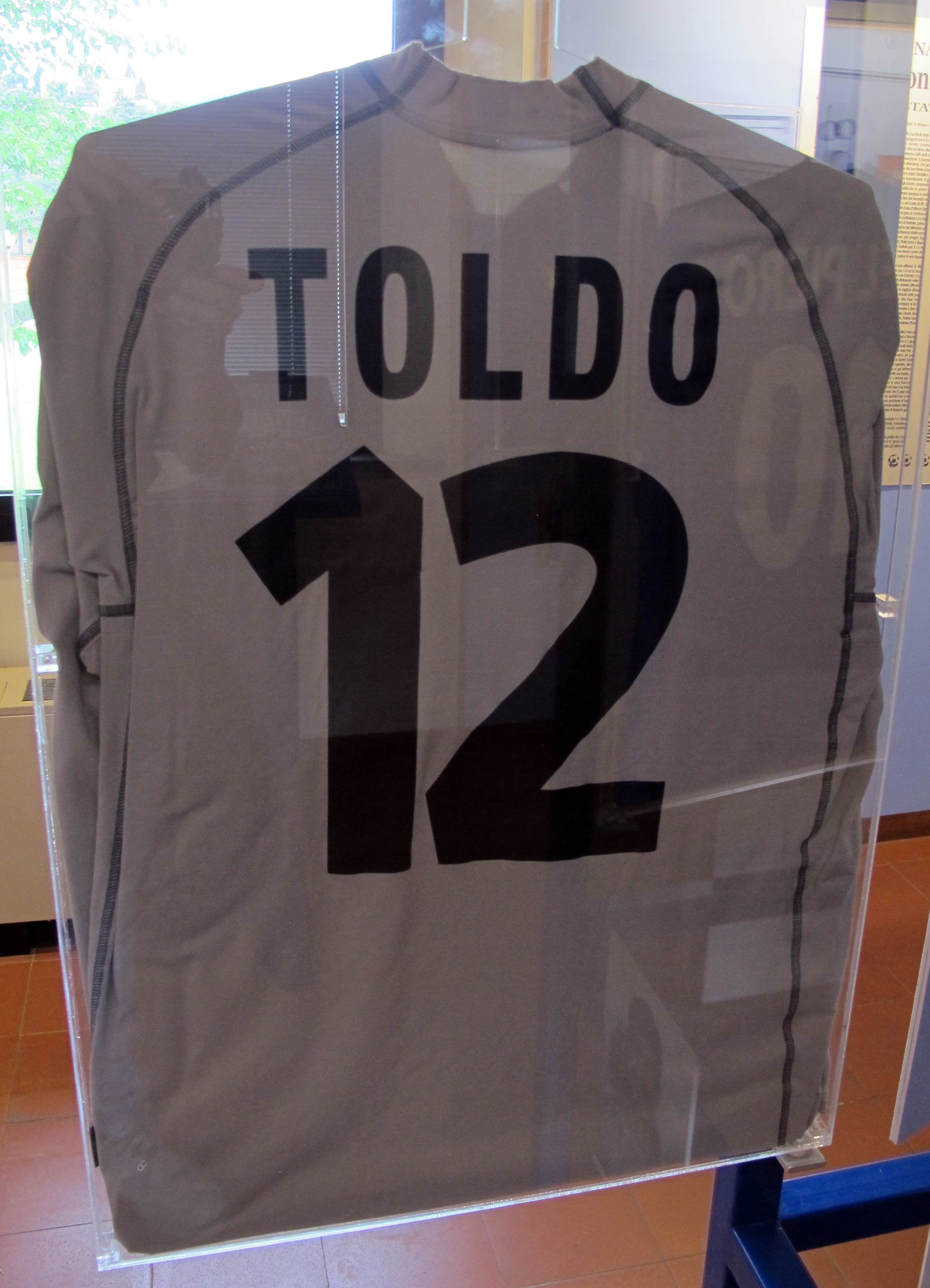 Collections of the Museo del Calcio (Florence)